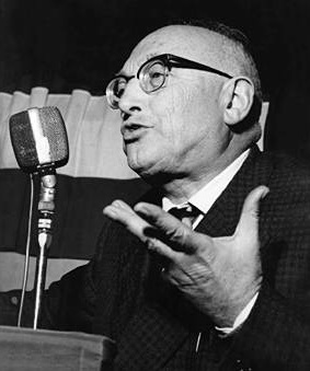 Peitro Nenni, leader of the Socialist Party of Italy